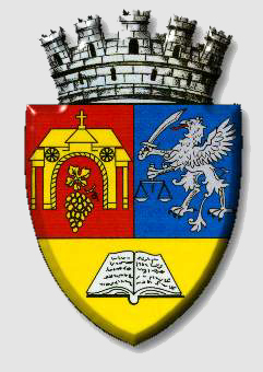 Coat of arms of Aiud, Romania